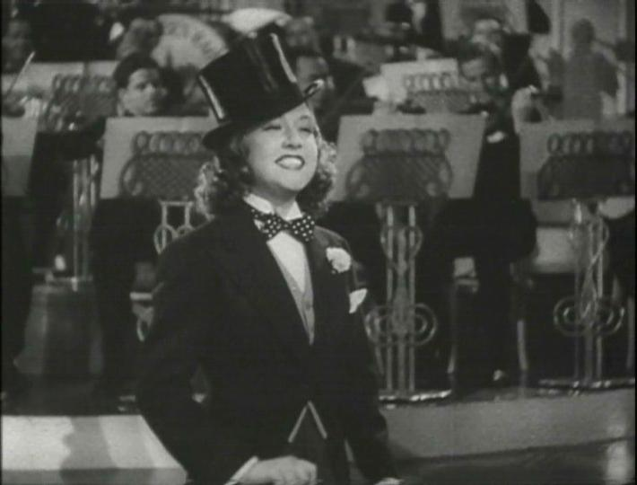 Screenshot of Ethel Merman from the trailer for the film Alexander's Ragtime Band